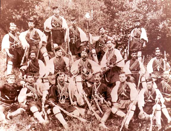 Band of Pavlos Melas.